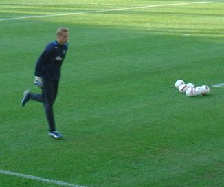 Mart Poom before England—Estonia game in June 2007.